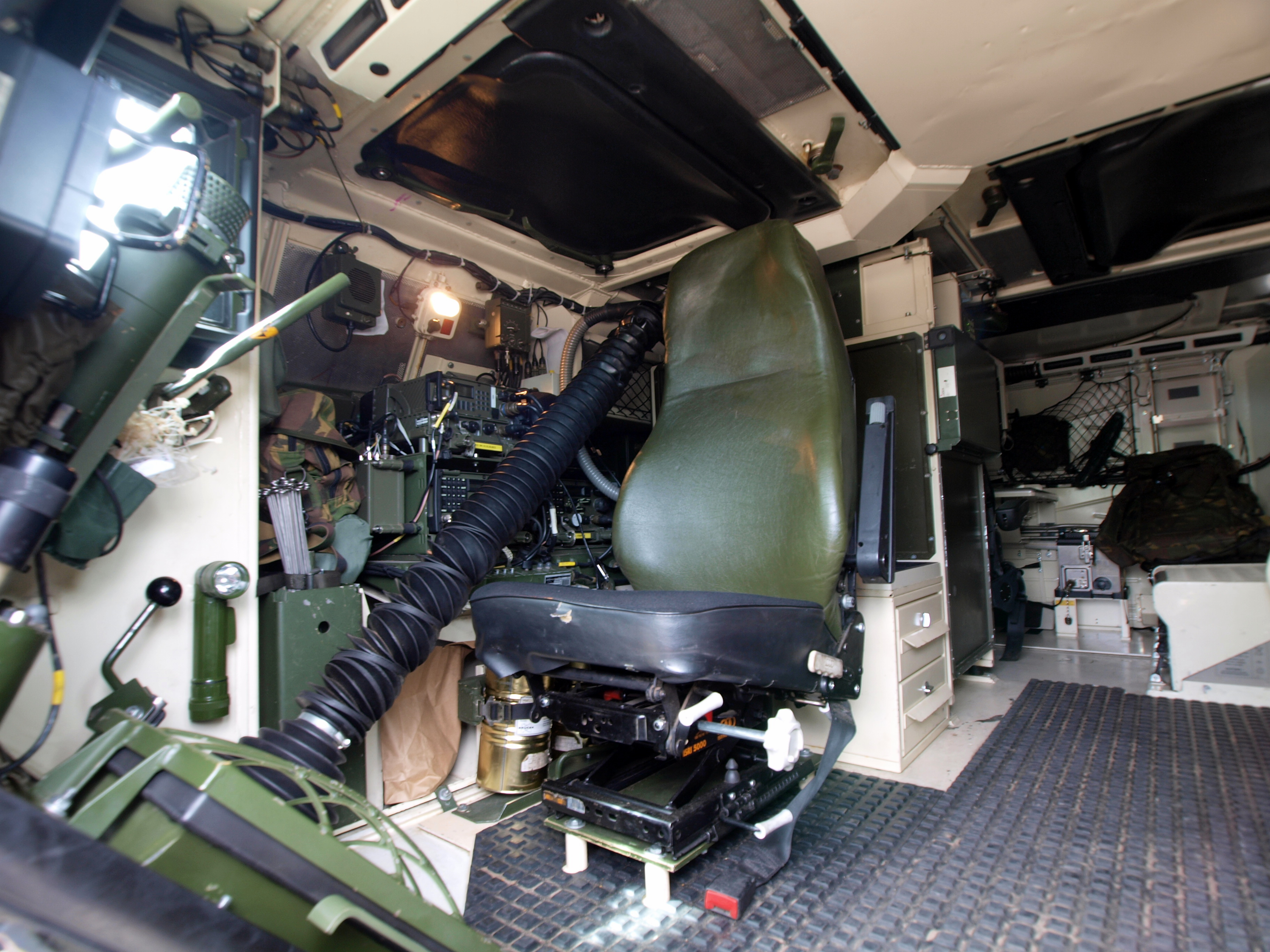 Photographed at the Open house / Open door Landmachtdagen 2012 in Oirschot the Netherlands. Fuchs vehicle of the Dutch army. Rear seat of the NBC expert.